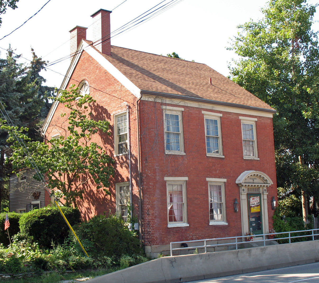 Registered Historic Places in Stark County, Ohio. John Miller House, 9677 Cleveland Ave. NW, Greentown, Ohio, USA. Photographed 2008-08-30 from the east side of Cleveland Ave. NW. between Schlemmer St. NW and State St. NW.